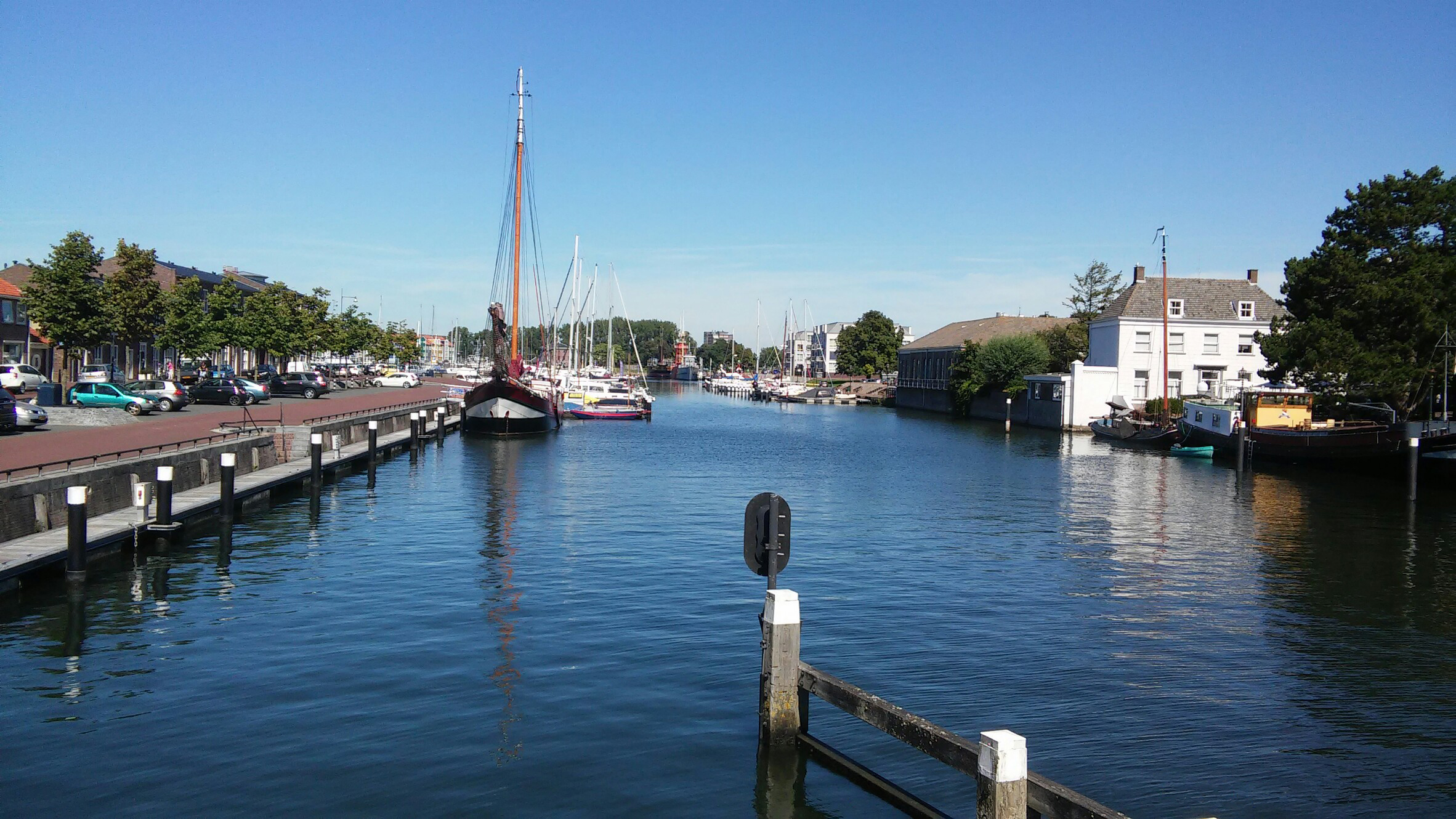 View from the bridge at the harbor.